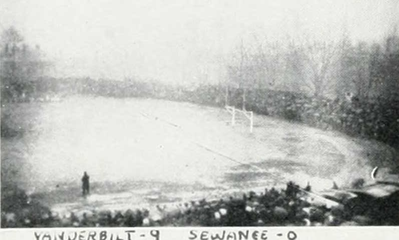 Curry Field during or after the game between Vanderbilt and Sewanee in 1921.